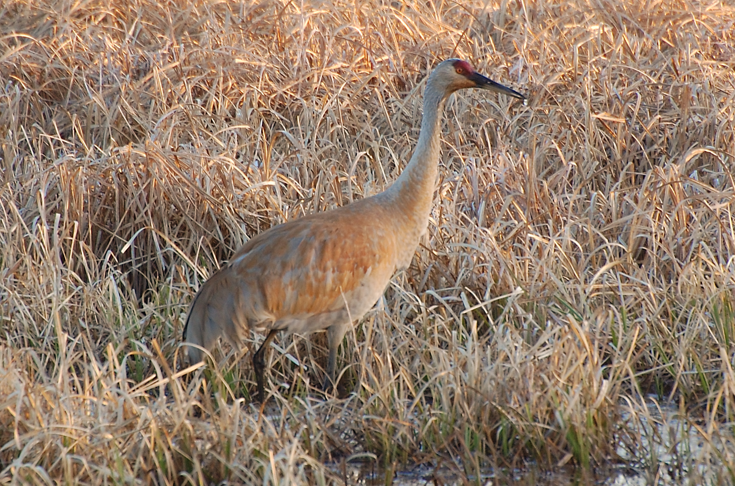 Grus canadensis (Sandhill Crane) in Crex Meadows, WI